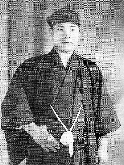 A Japanese judoka, Shōichi Minato （Old name:Shōichi Koyama）, who won at the All Japan Police Judo Championship in 1951.